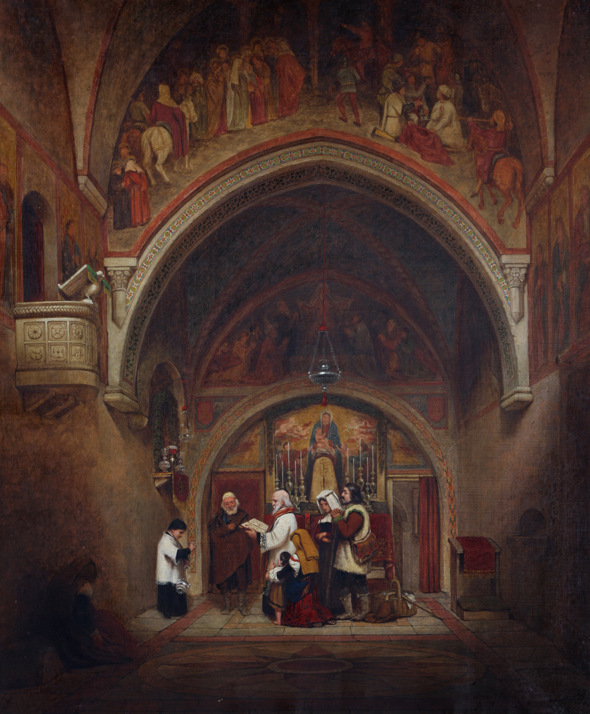 Interior of the Church of San Benedetto, Subiaco, Lazio, Italy.